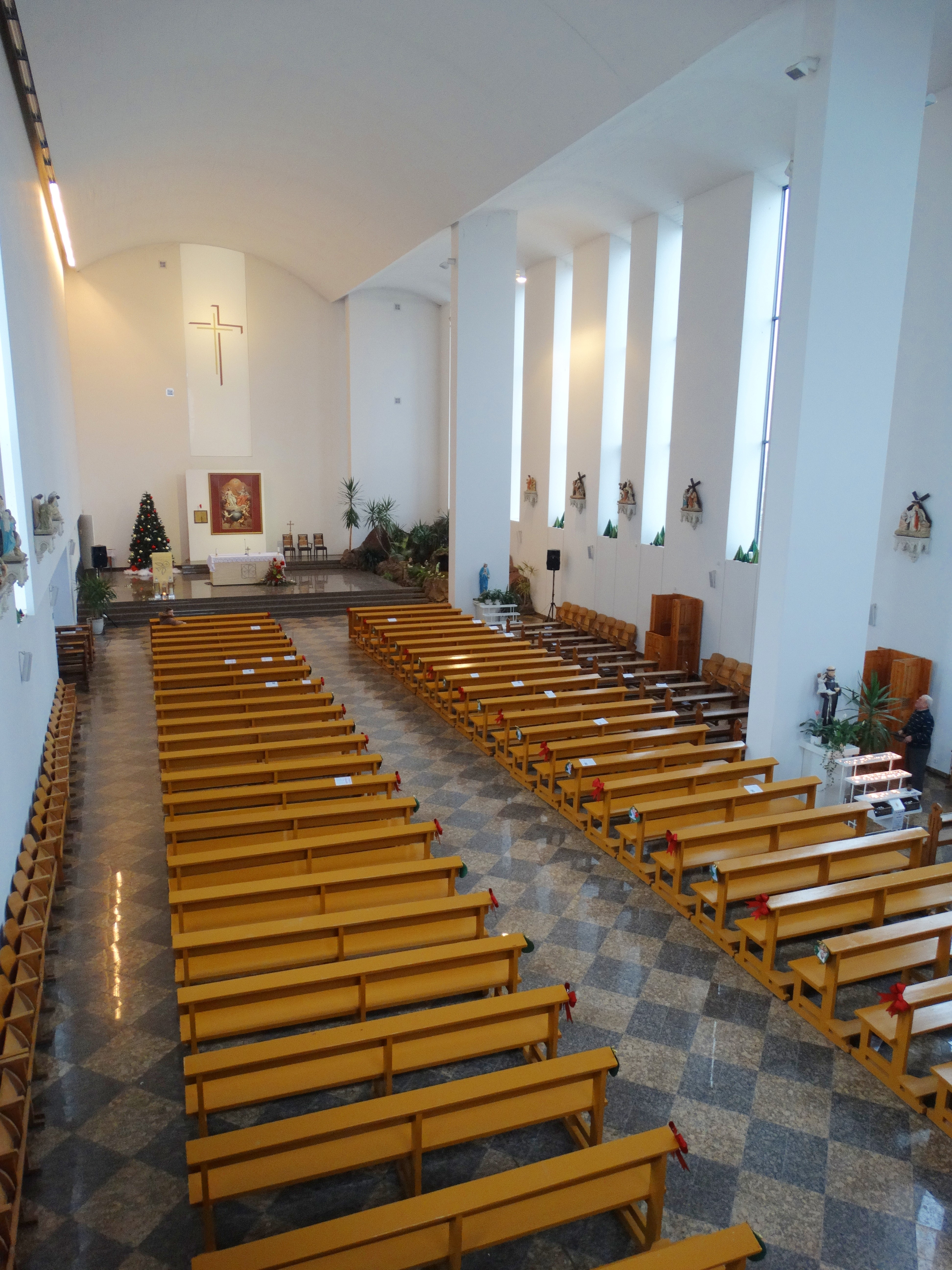 Roman Catholic Church of the Holy Spirit in Šilainiai, Kaunas, Lithuania